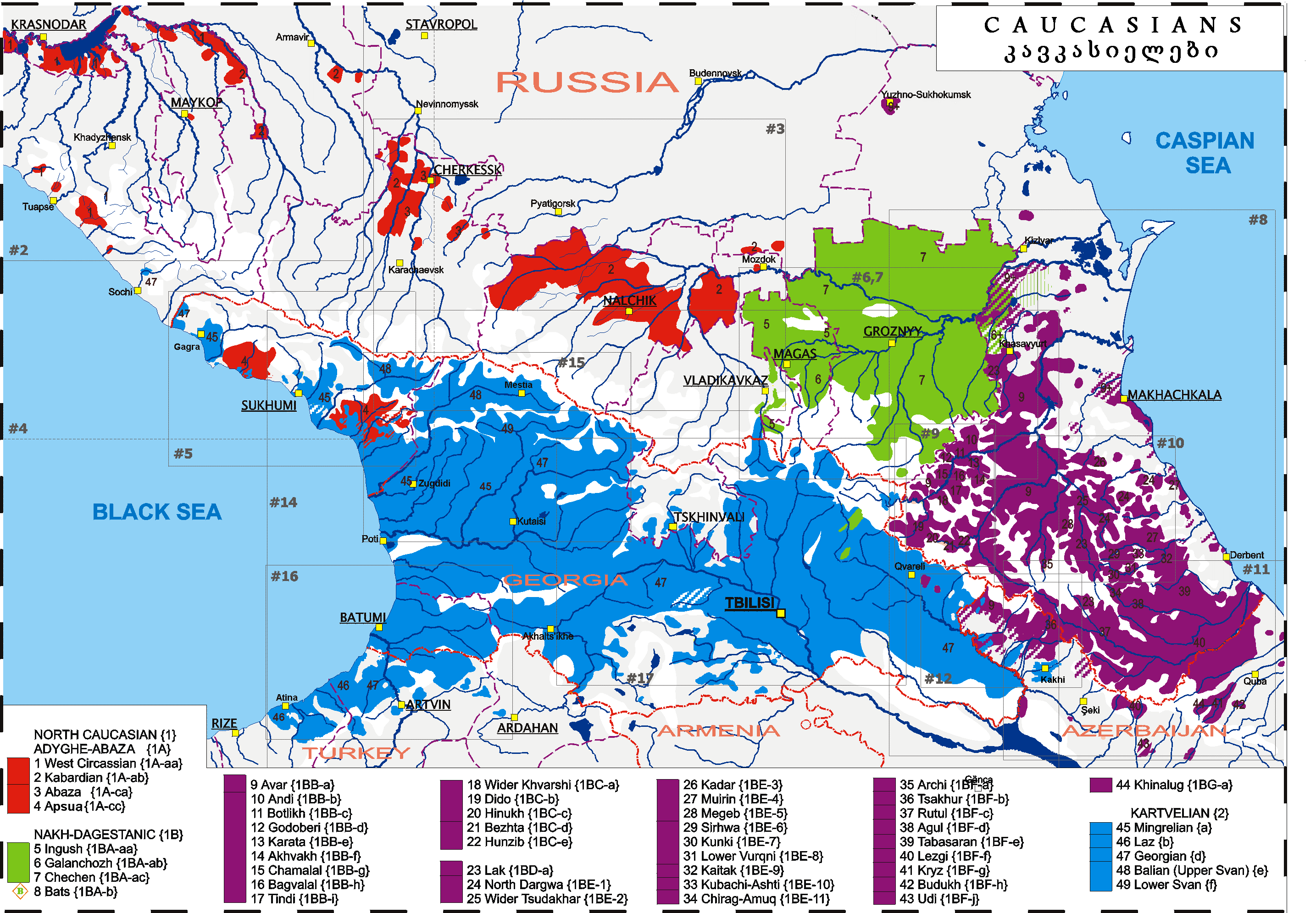 Caucasian Peoples and Languages as of 1990-2010